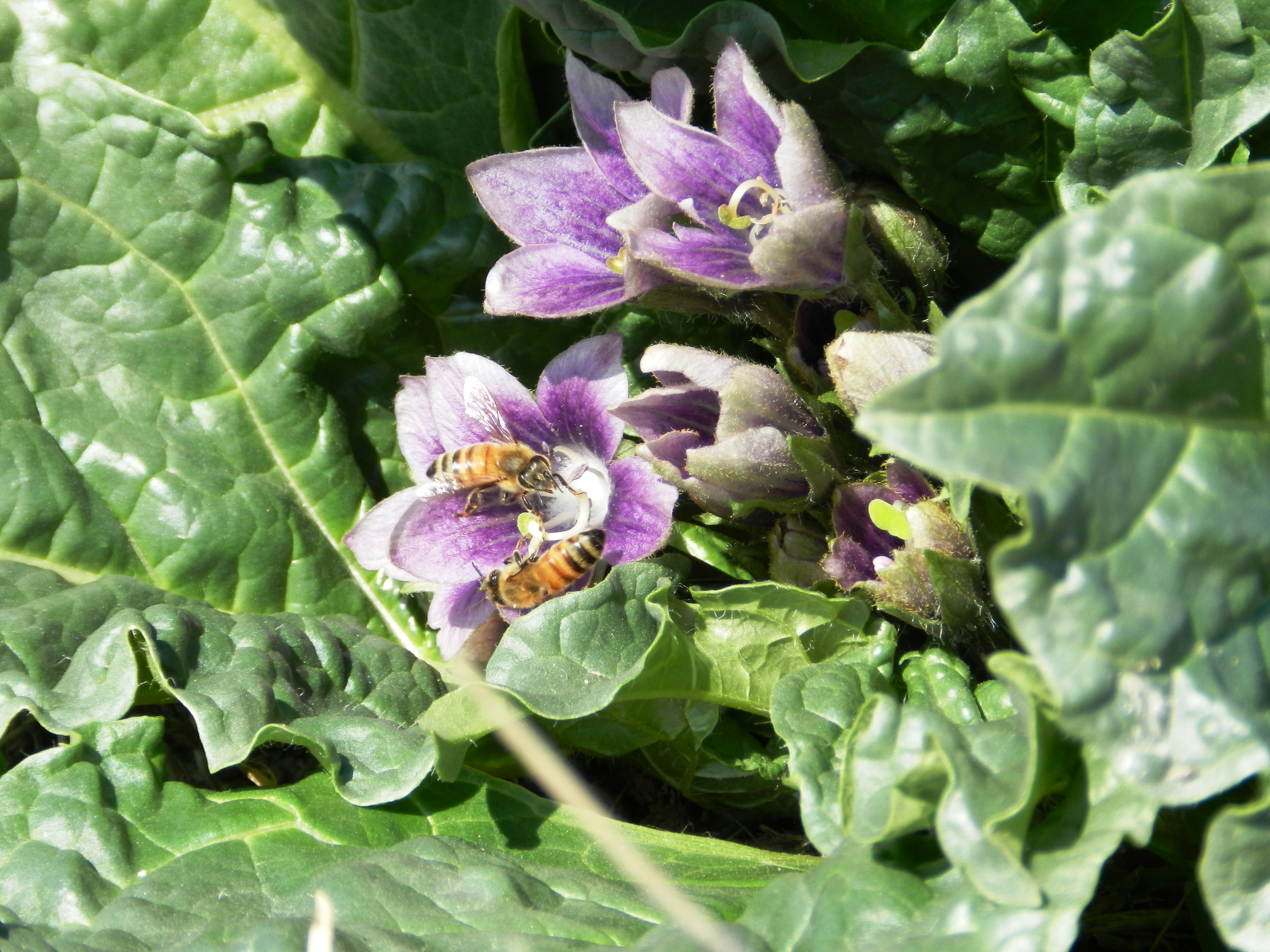 Mandragora Autumnalis, Plants of Israel